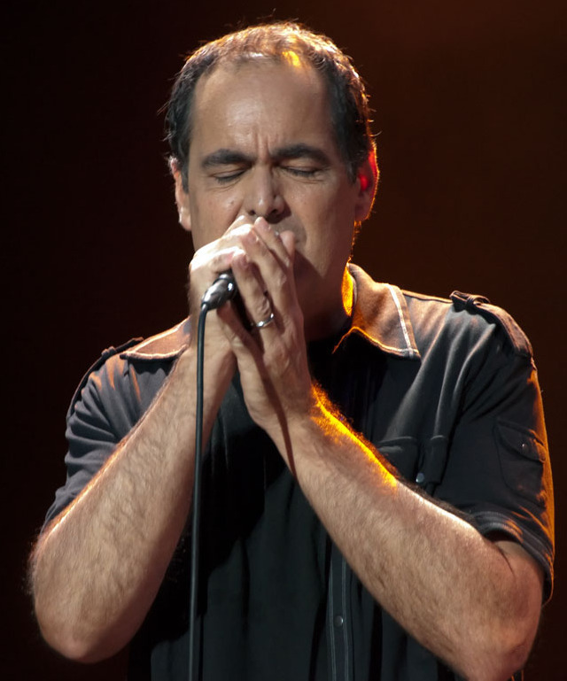 Neal Morse singing with Flying Colors, 013, TIlburg (sep. 20., 2012).